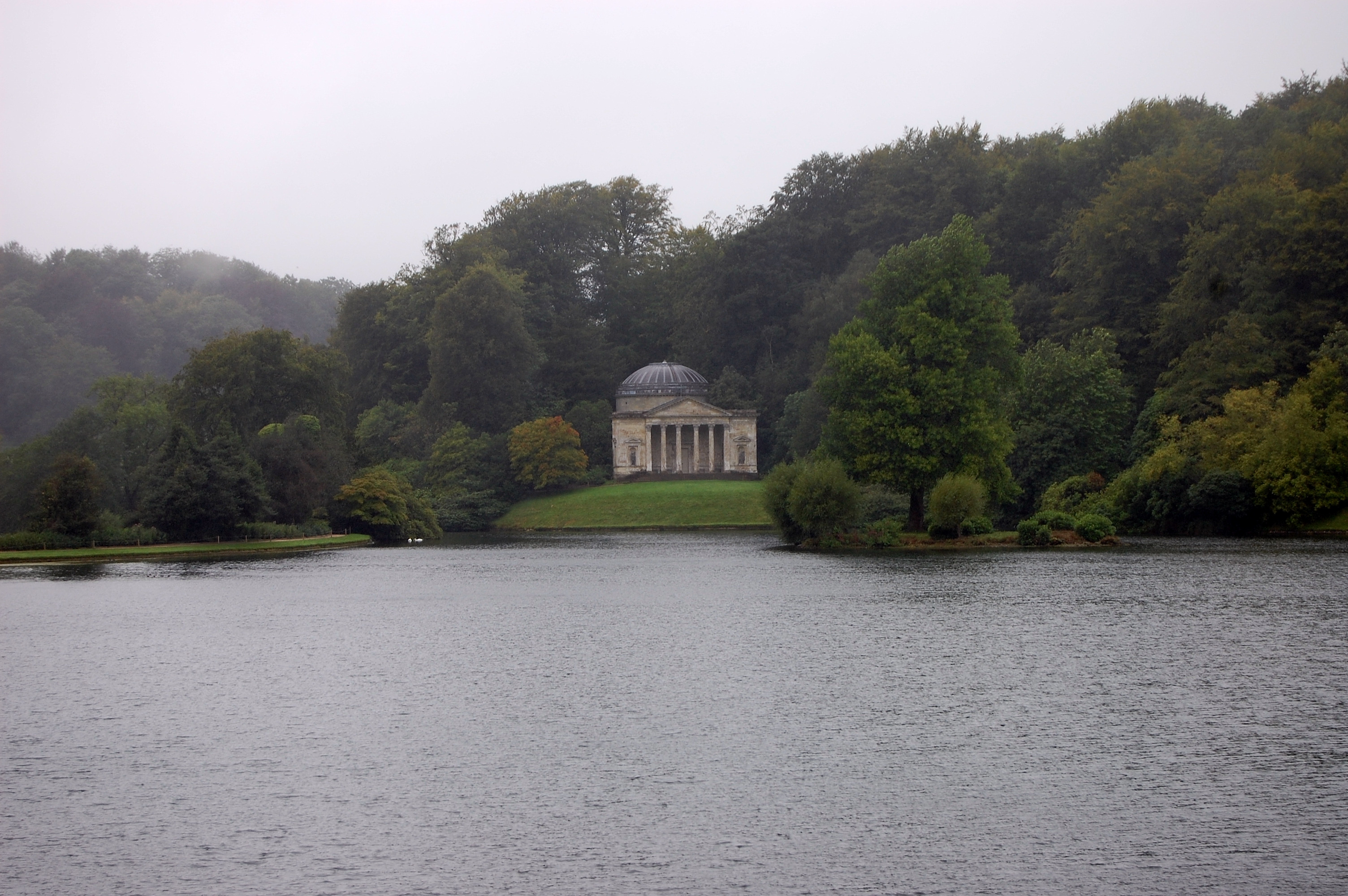 Stourhead